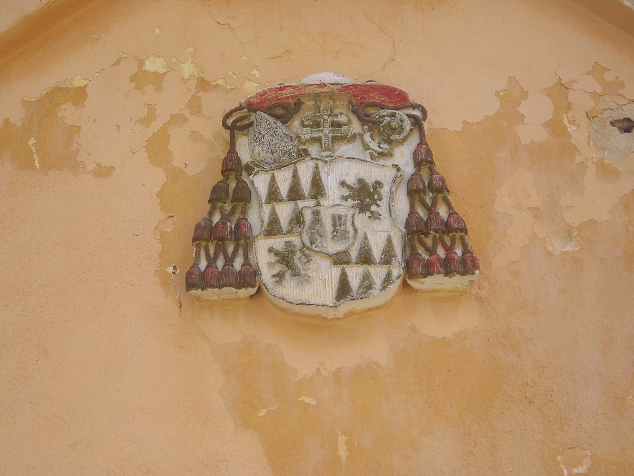 Coat of arms of srcibishop Leopold Prečan.